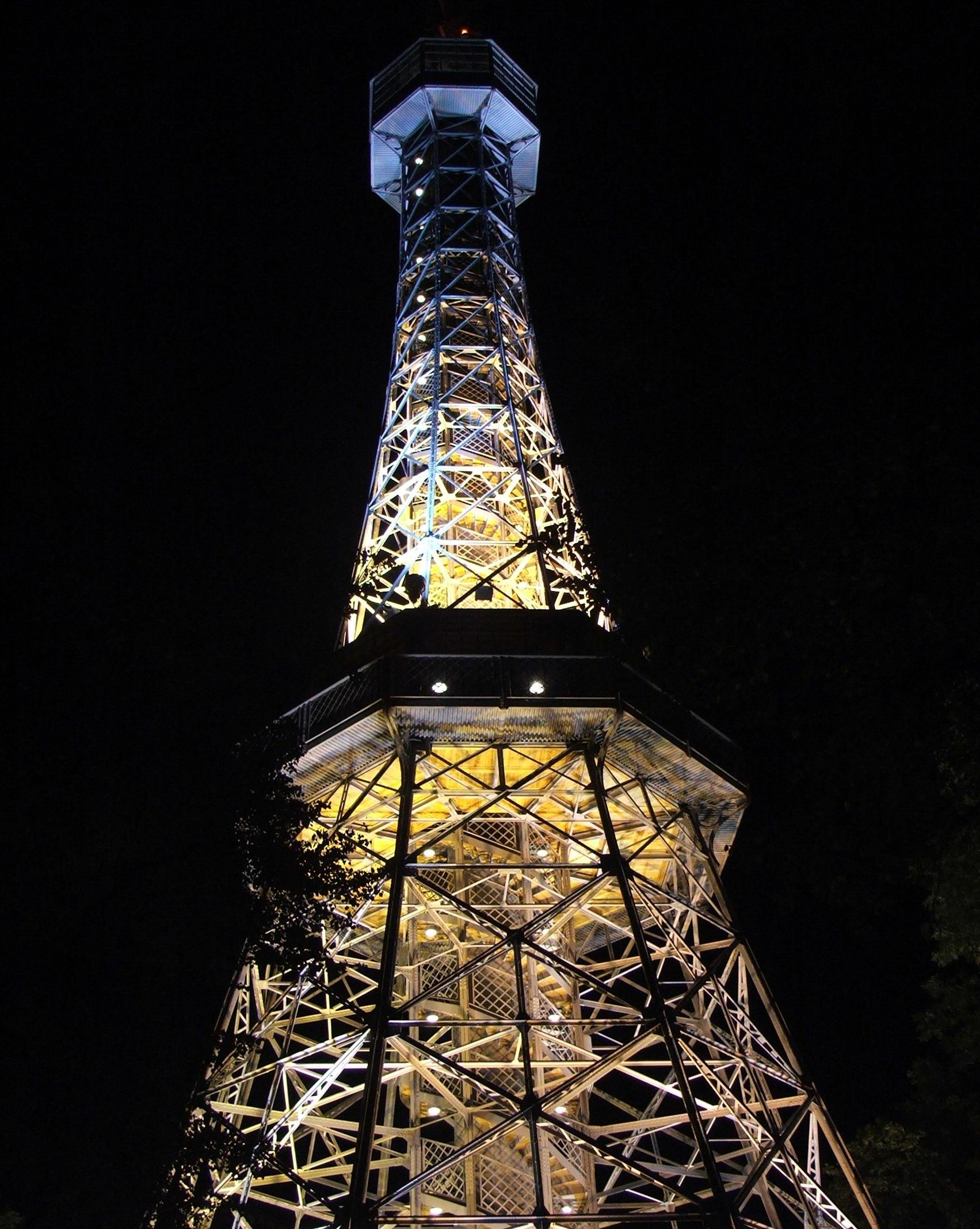 Petřín tower in Prague by night.